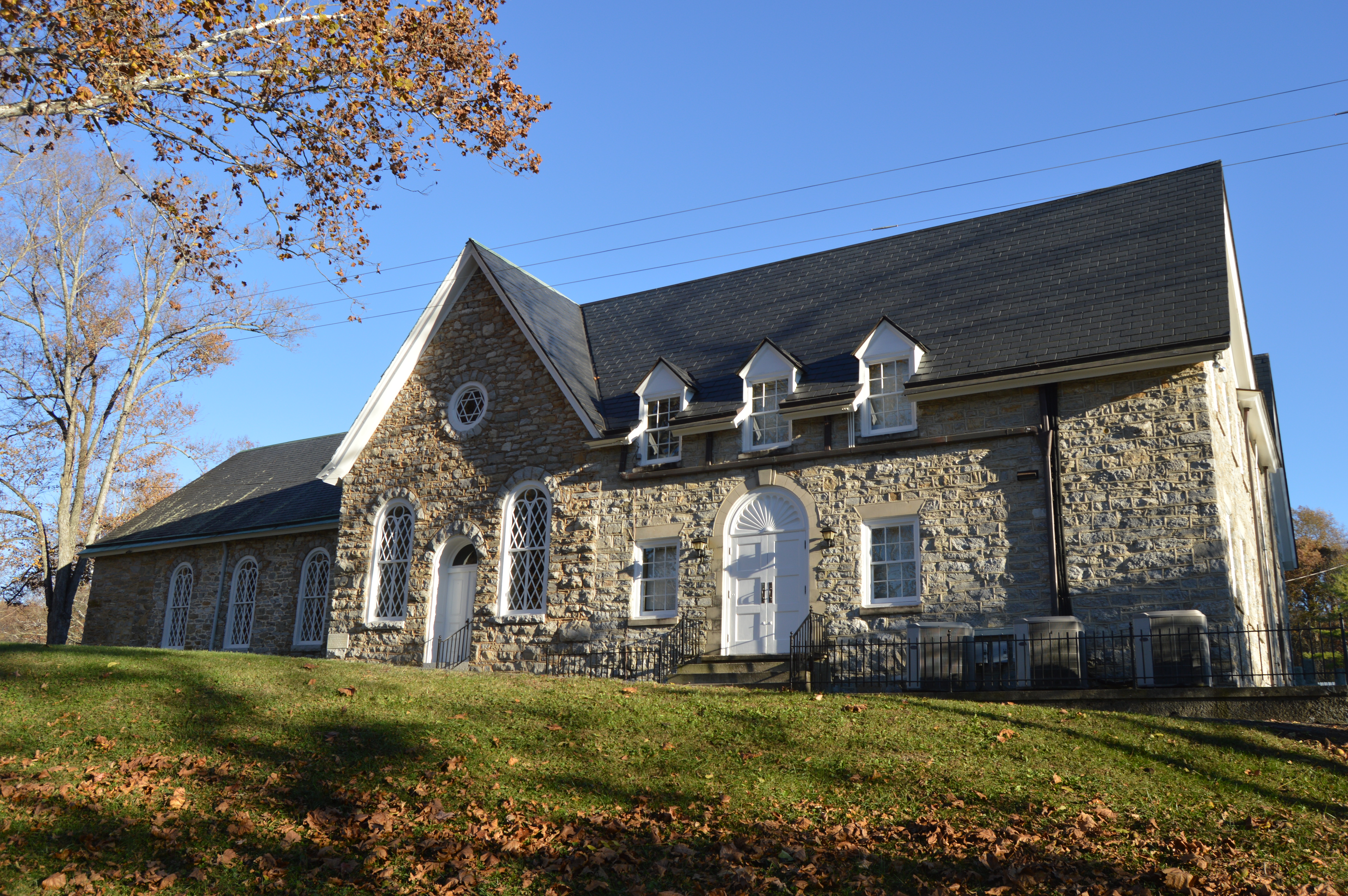 Northern side and rear of Timber Ridge Presbyterian Church, located on Timber Ridge Road northeast of Lexington in Rockbridge County, Virginia, United States. Built in 1756, it is listed on the National Register of Historic Places.